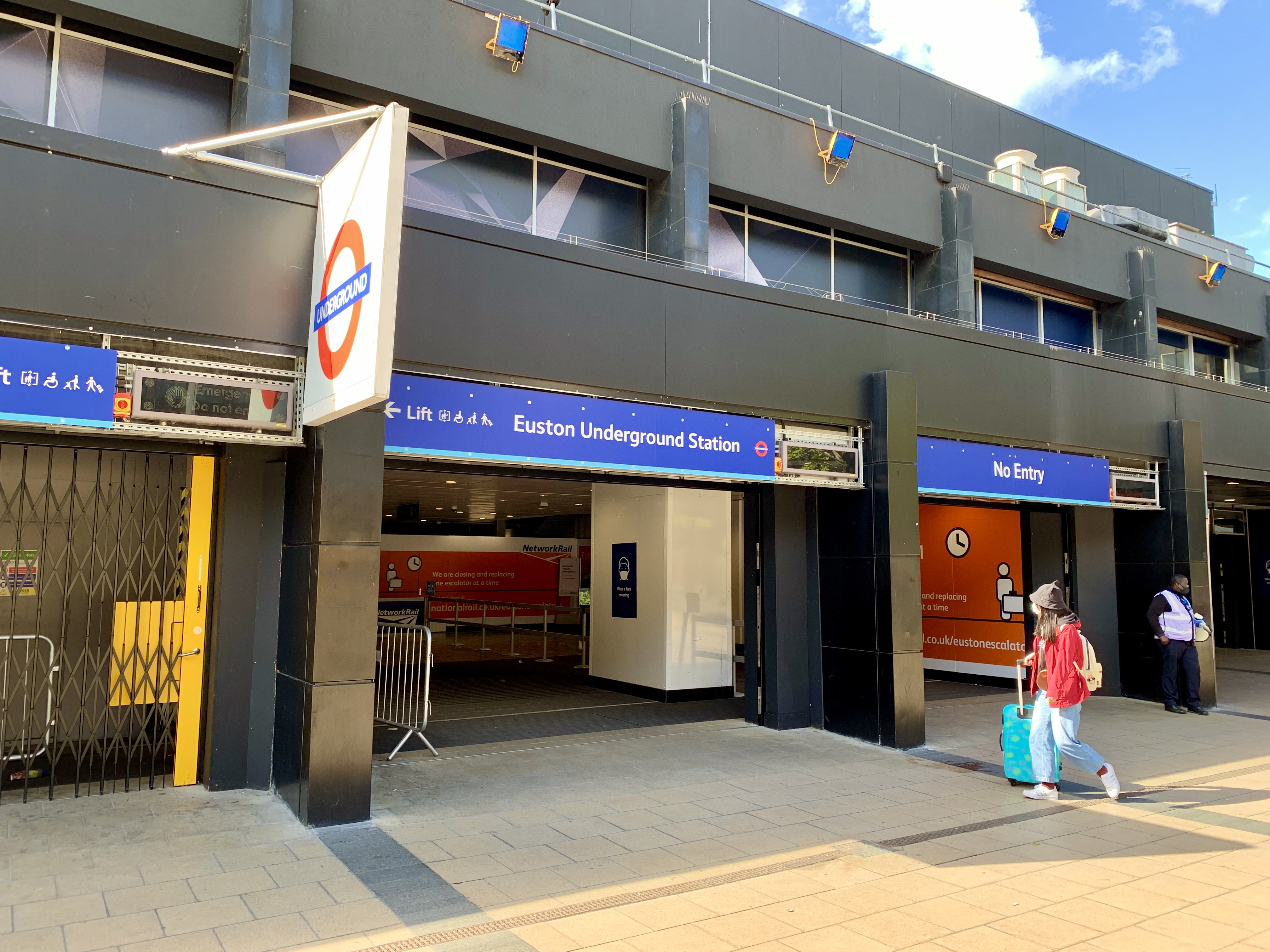 The new entrance to Euston tube station, next to the railway entrance. Taken during my Northern Line Tube Walk.